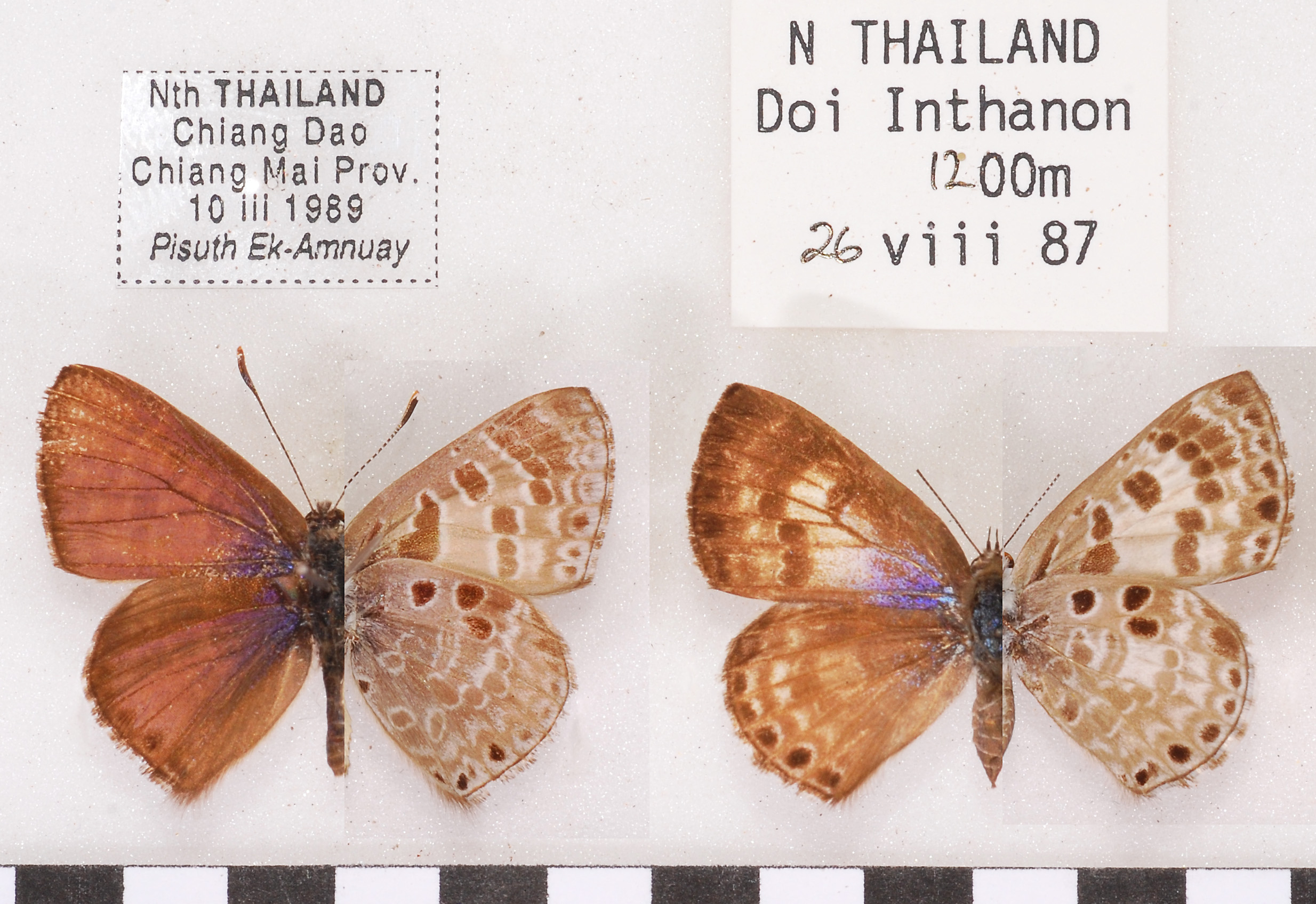 Niphanda asialis marcia, male, female, Thailand, set specimens, Alan Cassidy photo.